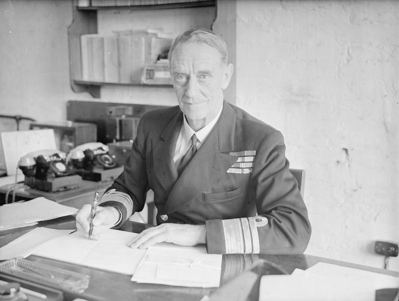 Vice Admiral Sir H D Pridham-whipell, Vice Admiral Commanding Dover. 20 April 1943, Dover. Vice Admiral Sir Henry Pridham-Whippell, KCB, CVO, at work at his desk.